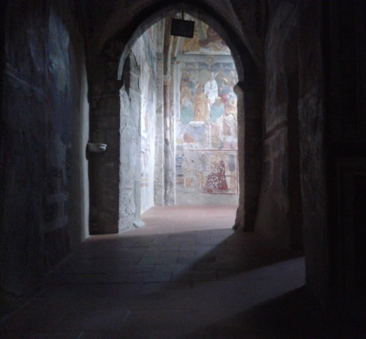 Frescoes in the chapel, Madonna dei Bisognosi sanctuary, Abruzzo, Italy